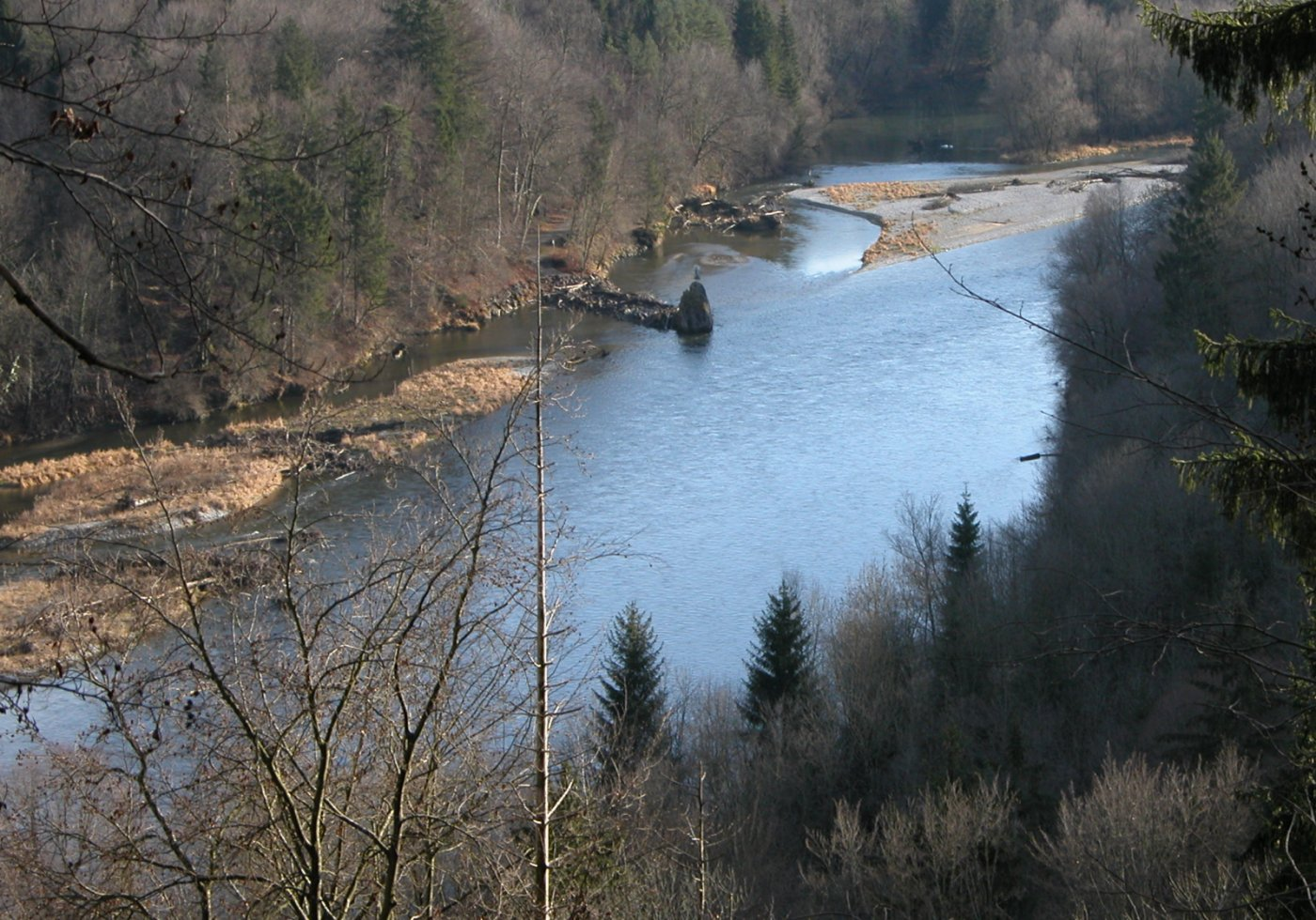 River Isar nearby Munich, Germany (Georgenstein)